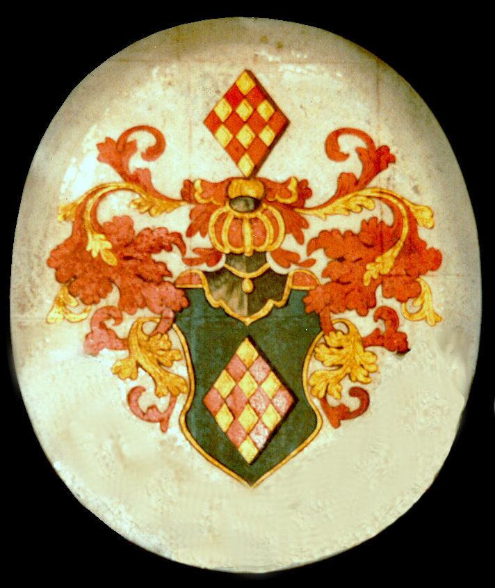 Gronewappen in der St. Michaelskirche in Kirchbrak